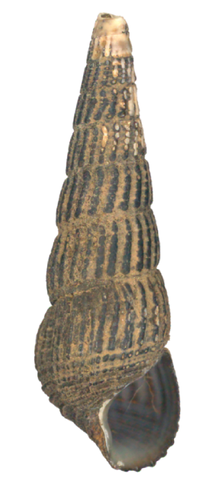 Photo of an apertural view of a shell of Tylomelania patriarchalis.